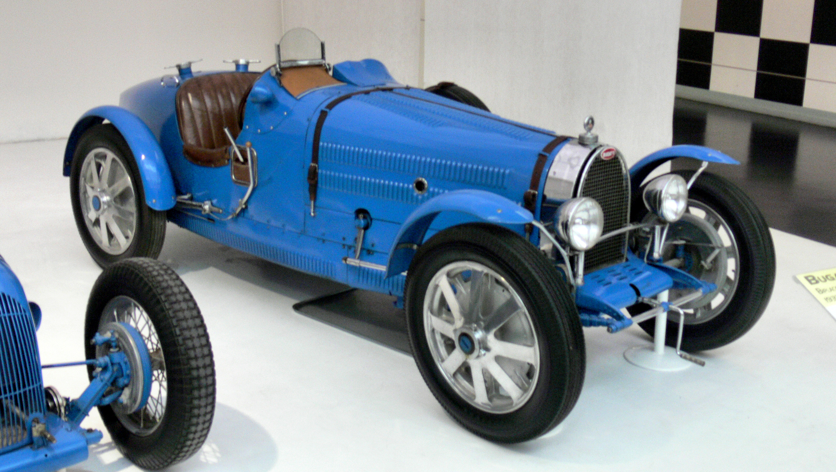 Bugatti Biplace Sport Type 51A (1933) in the Musée National de l'Automobile (Mulhouse)